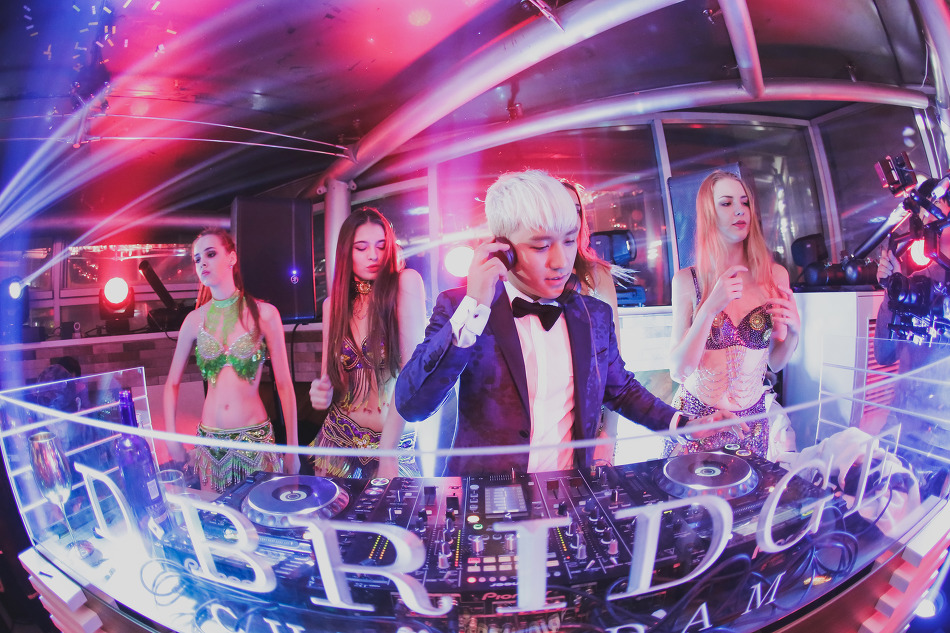 Seungri During "Gatsby's Fantastic Festival" charity event organize by himself and friends, On December 25, 2015